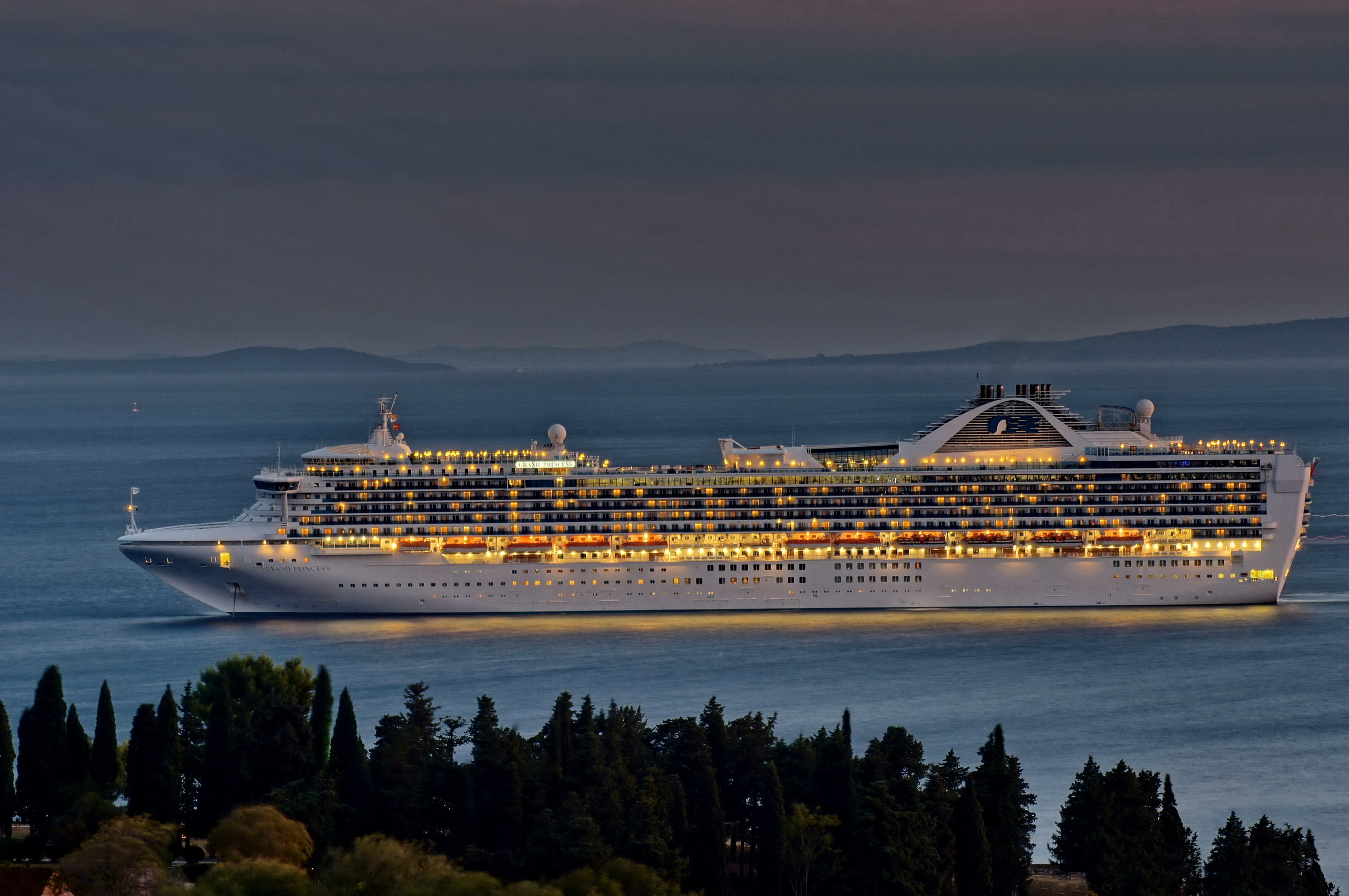 Grand Princess (ship, 1998) IMO 9104005, in Split 2011-10-13